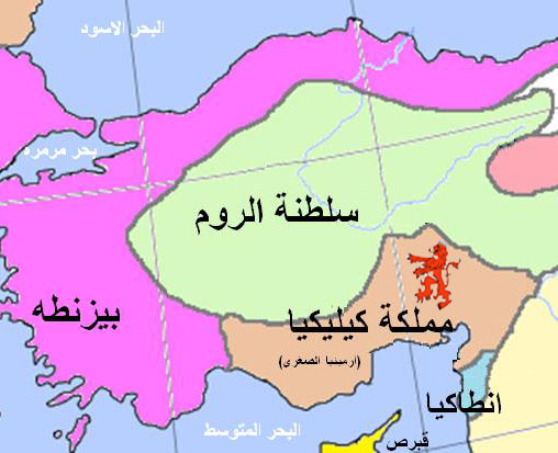 Map of the Kingdom of Cilicia , Anatolia and some surrounding regions in AD 1200. (Partially based on Euratlas map of Europe, 1200.)